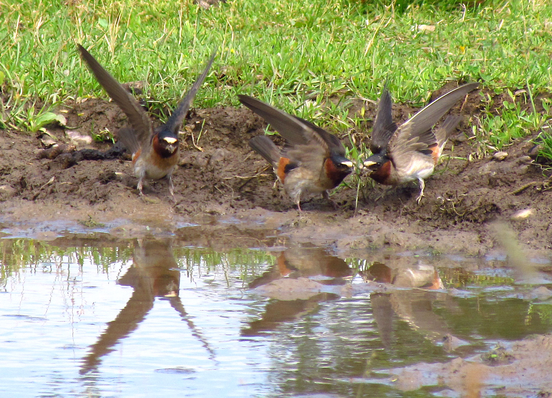 American Cliff Swallows (Petrochelidon pyrrhonota), Prince Edward Point, Prince Edward County, Ontario